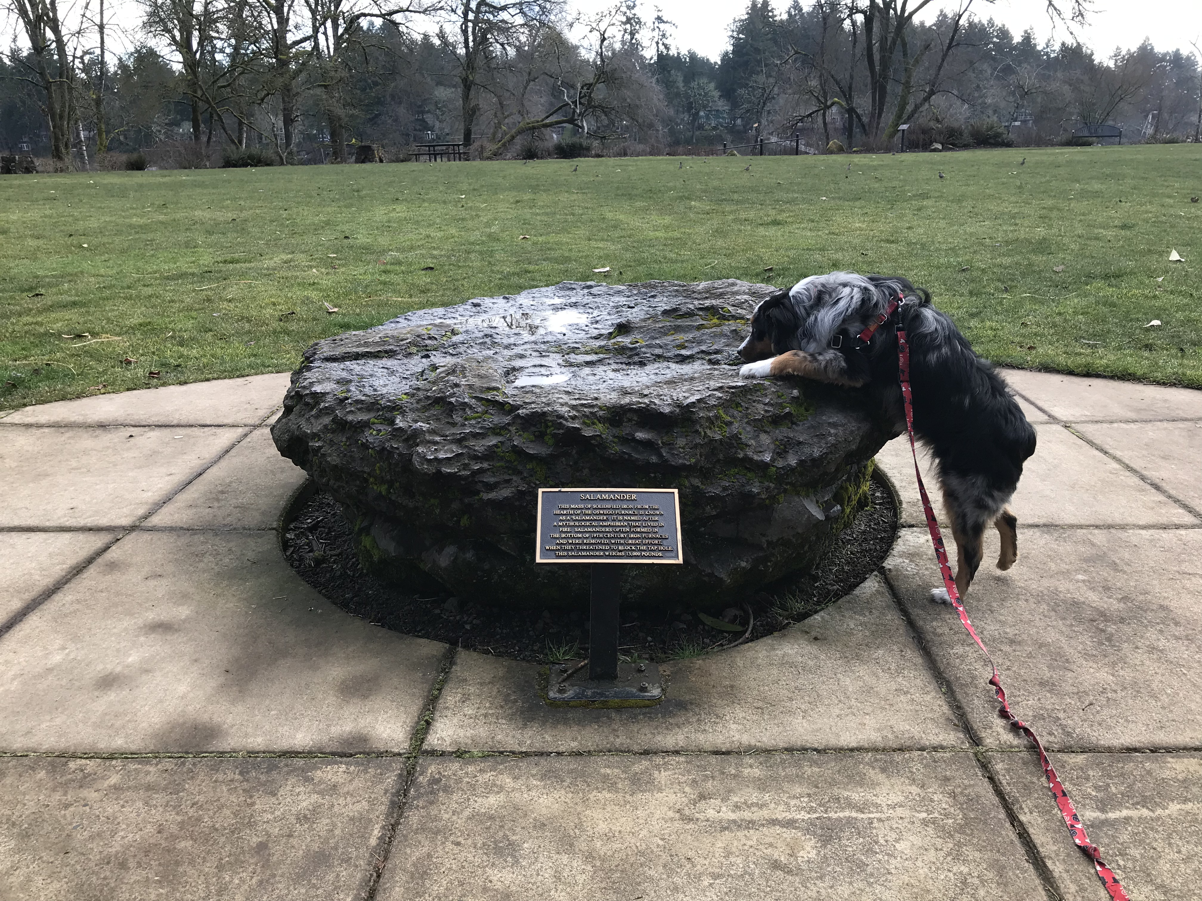 iron salamander from lake oswego